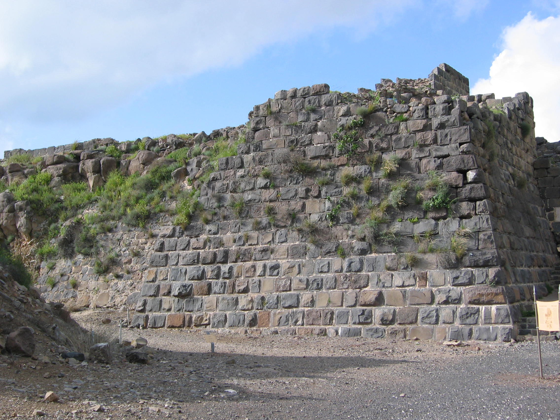 The crusader castle of Belvoir, Israel: wall